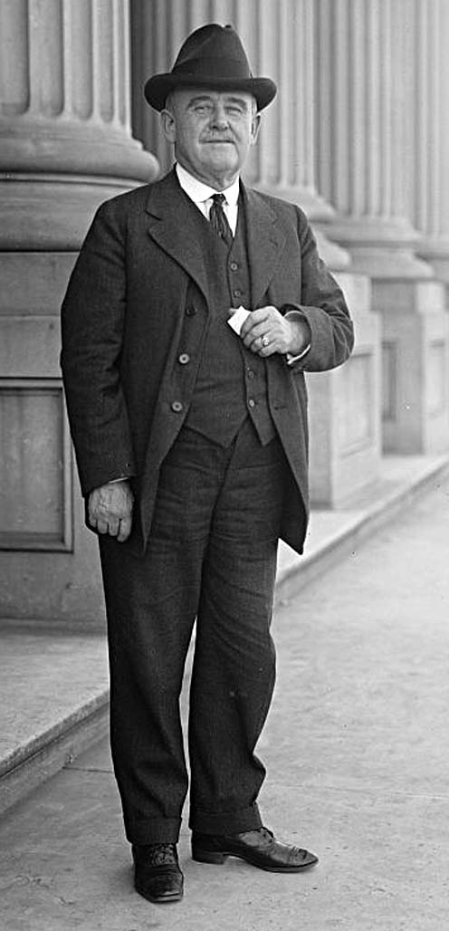 William B. McKinley, US Senator and Congressman from Illinois